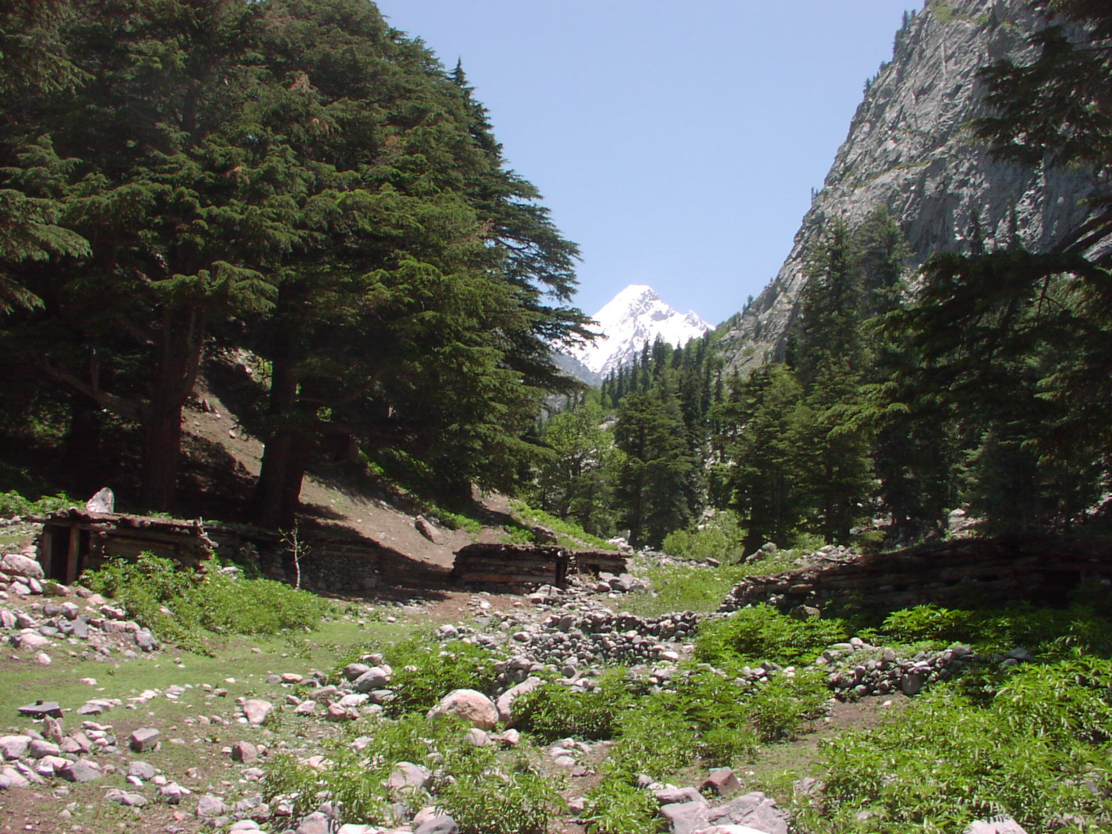 this is one of the beautiful view at Mahudand lake